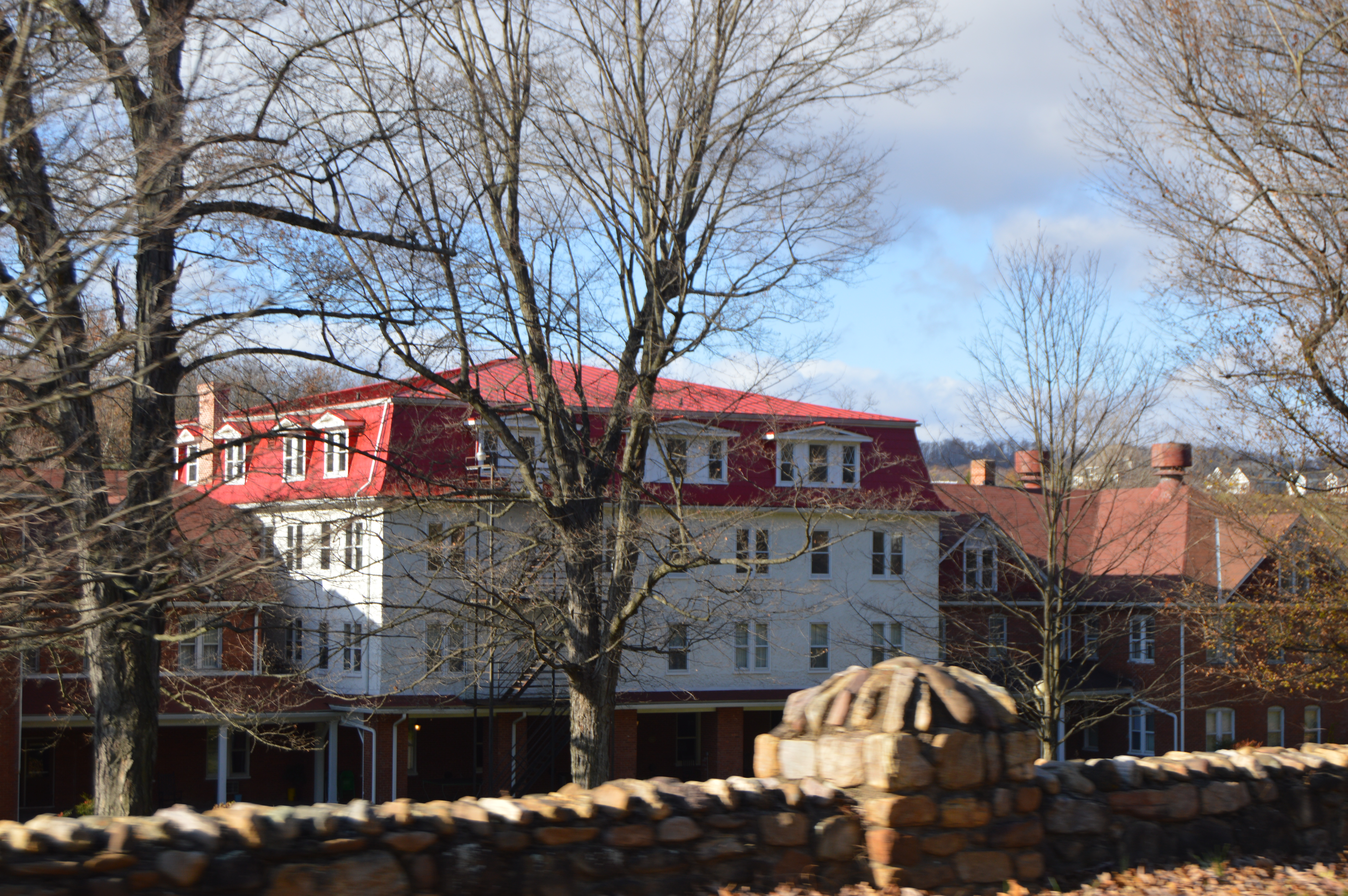 Front of the Massanetta Springs Hotel, located on Massanetta Springs Road southeast of Harrisonburg in Rockingham County, Virginia, United States. Built in 1910, the hotel is the center of a resort complex that is listed on the National Register of Historic Places as a historic district.